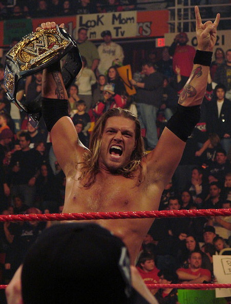 Edge shows off after his WWE Championship victory over Jeff Hardy. Taken January 25, 2009 at the Royal Rumble in Detroit, Michigan.